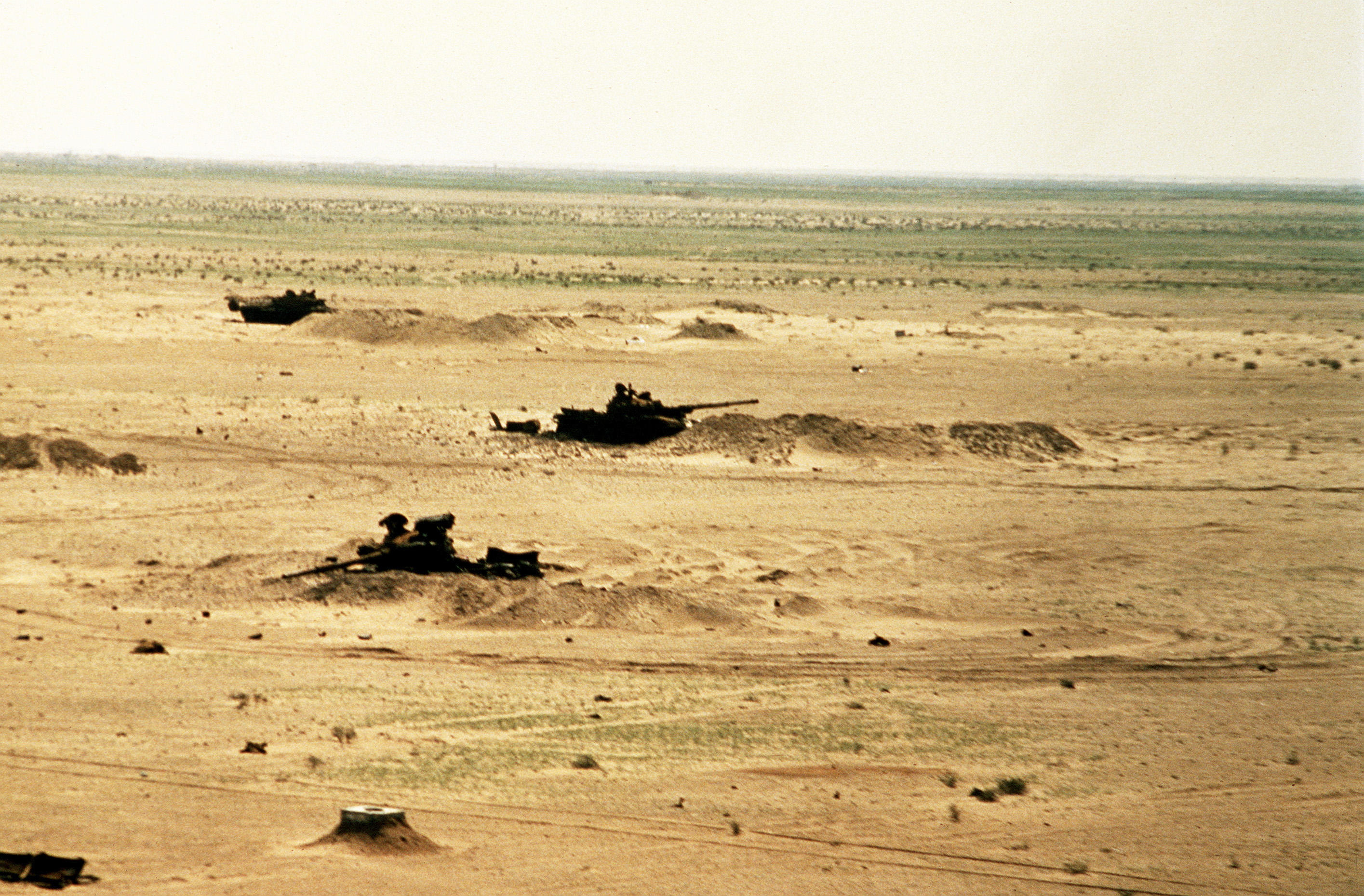 A group of burned out Iraqi T-72 main battle tanks destroyed in southern Iraq during Operation Desert Storm.